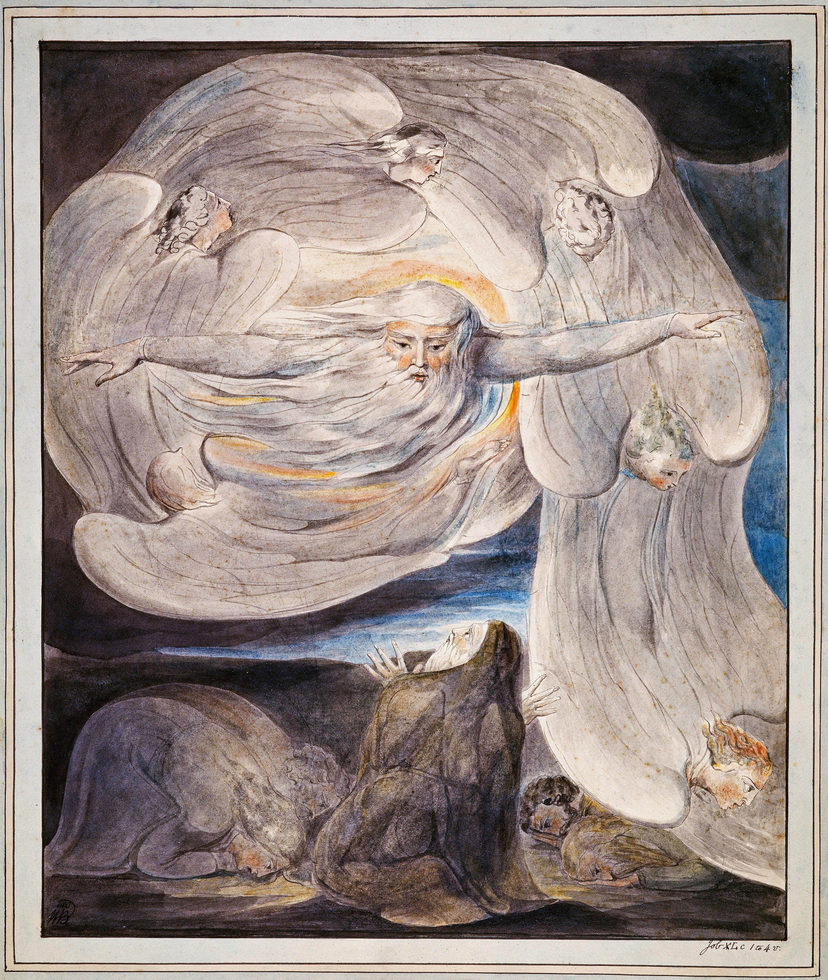 Job Confessing His Presumption to God Who Answers from the Whirlwind, object 1 (Butlin 461)